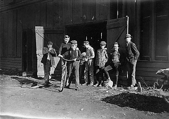 Original description: Woodbury Bottle Works. Noon hour. All are workers.